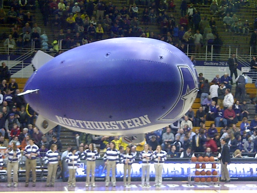 Northwestern Wildcats Blimpcam at Welsh-Ryan Arena